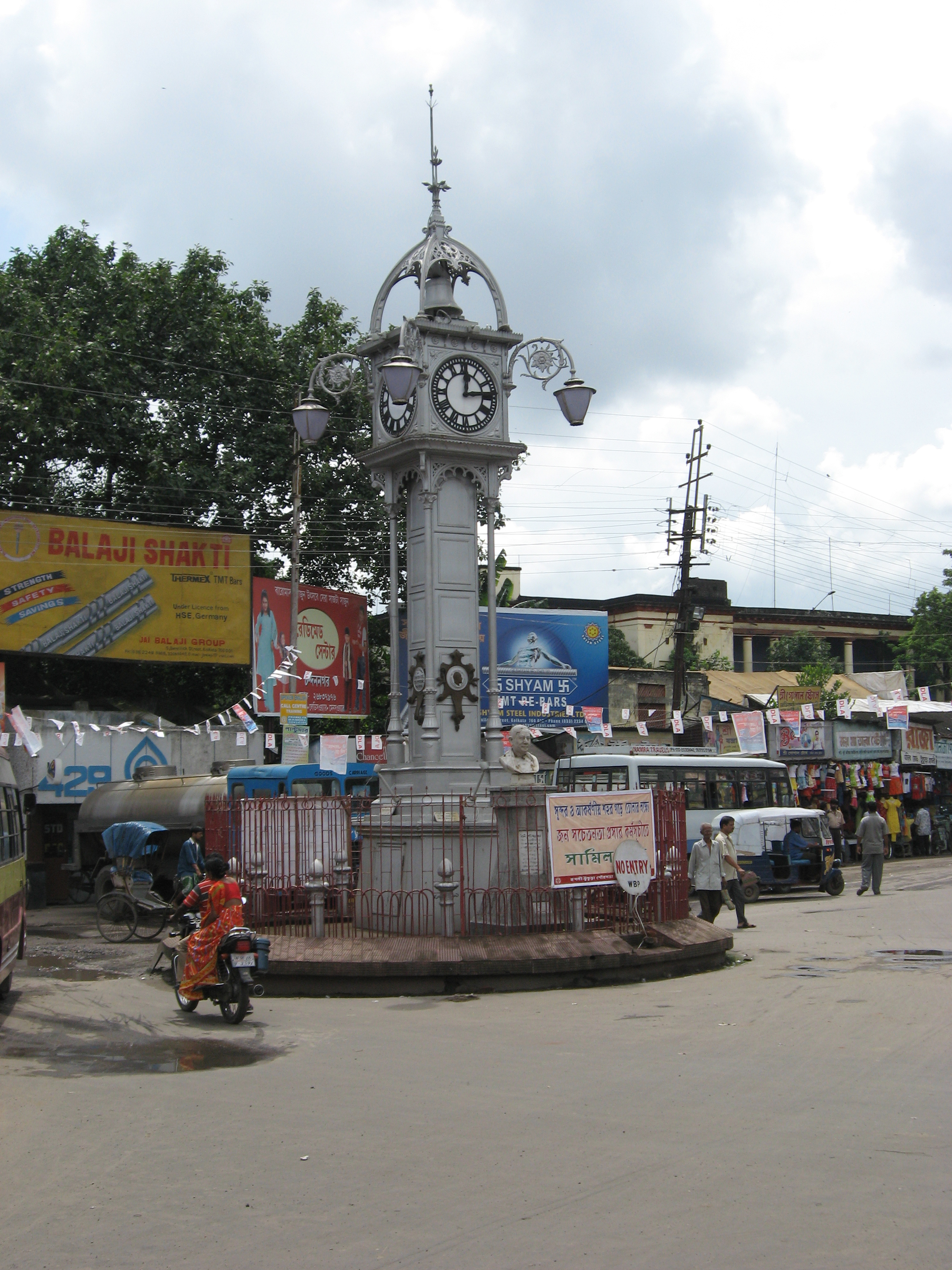 Chinsurah Watch Tower